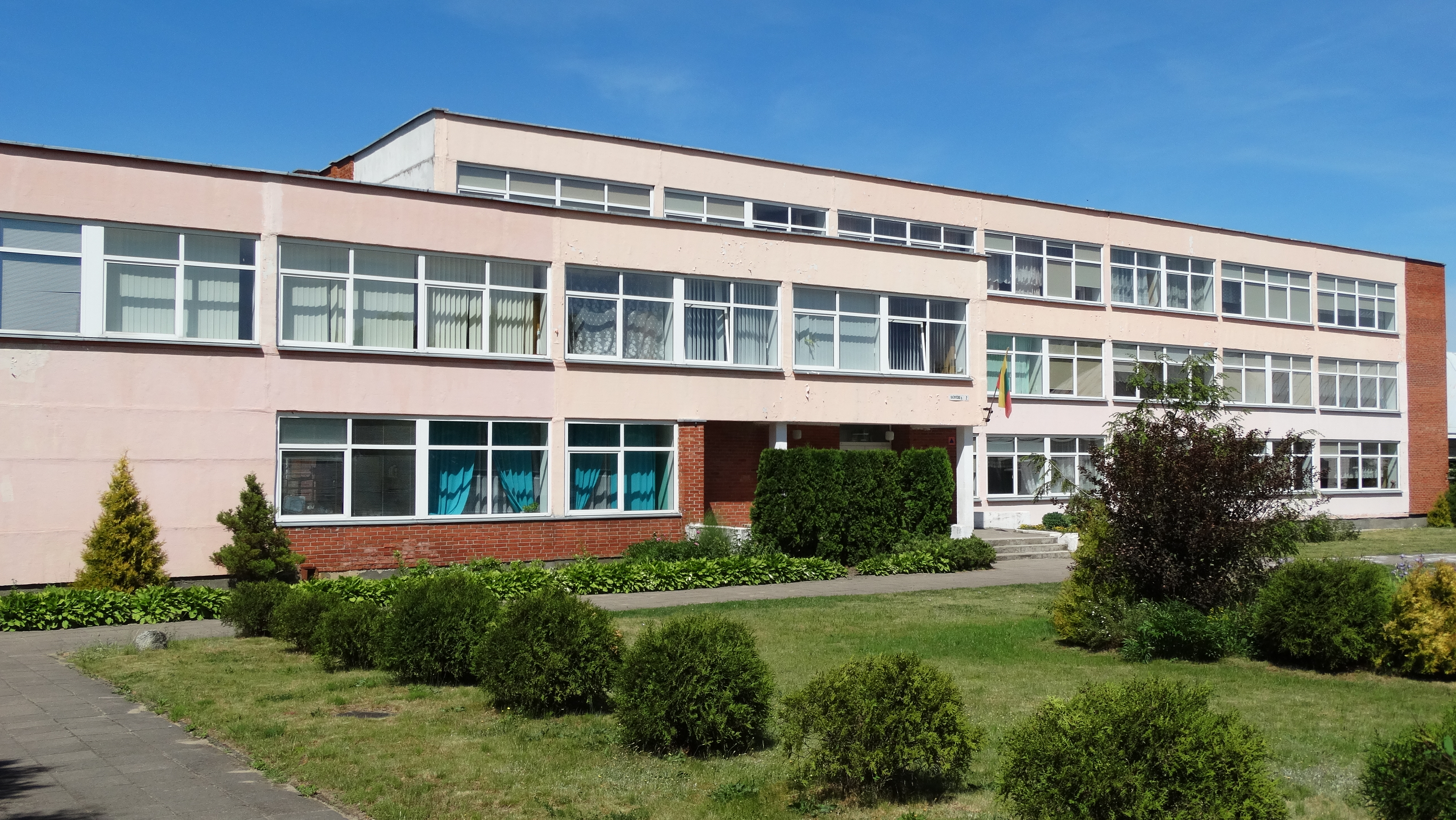 Gymnasium, Buivydžiai, Vilnius District, Lithuania